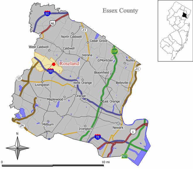 Source: Jim Irwin Original work by Jim Irwin, December 2005.